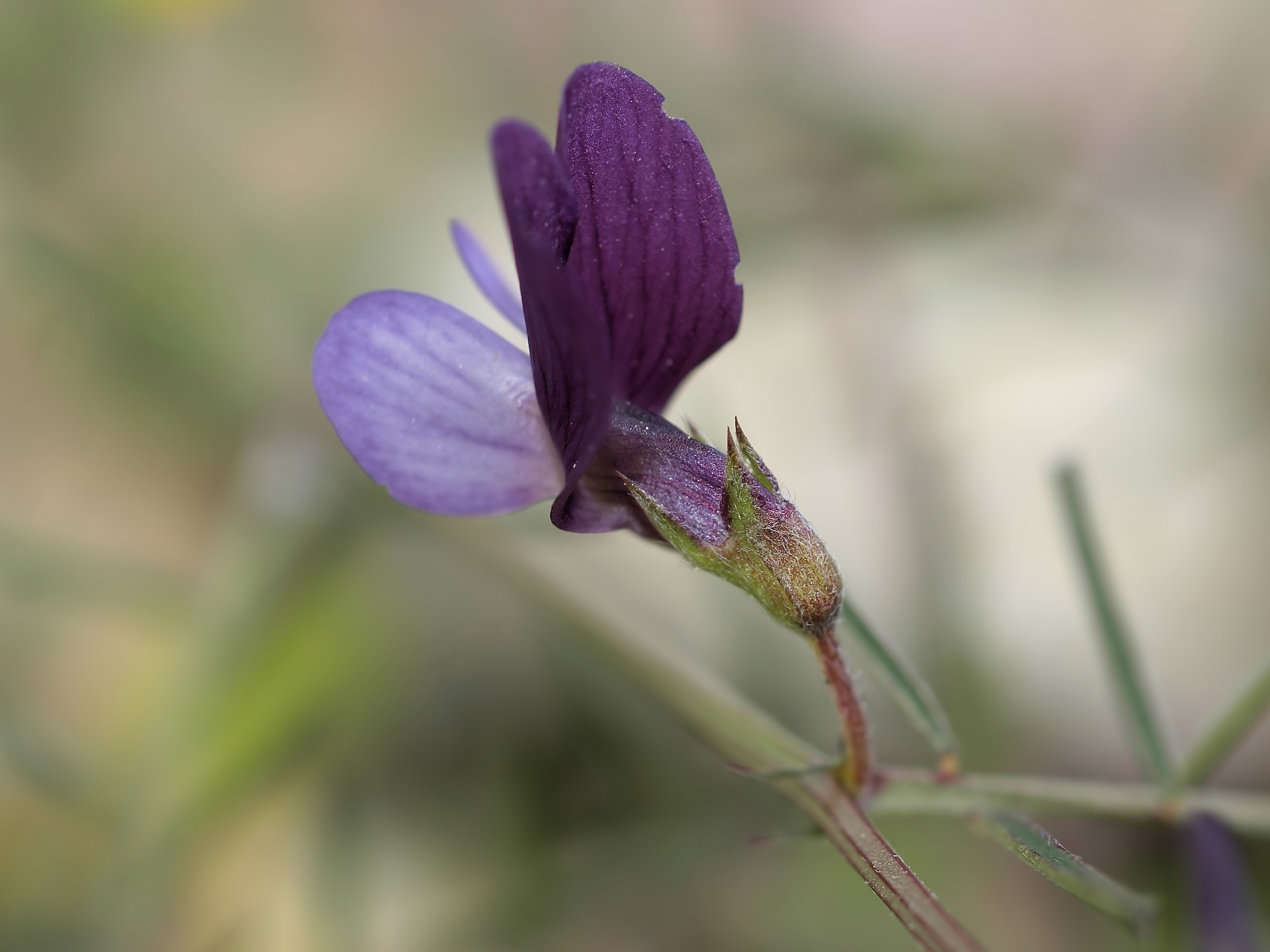 close to el Perelló, Catalonia, Spain